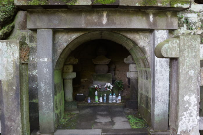 Tomb of Mori Suemitsu in Kamakura.